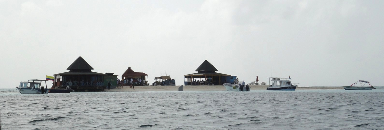 Acuario Cay (Rose Cay) from west